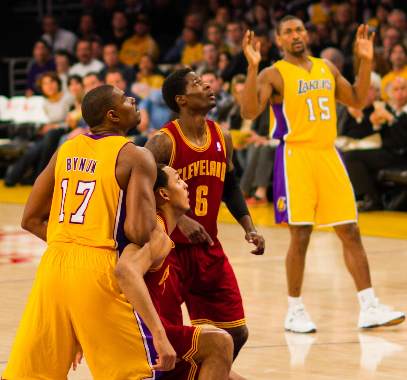 Manny Harris, and Ryan Hollins watch a shot along with Metta World Peace and Andrew Bynum